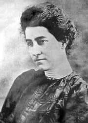 A portrait of Donaldina Cameron as a young women.